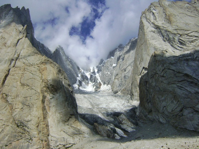 Siachen glacier, the world's highest battlefield.